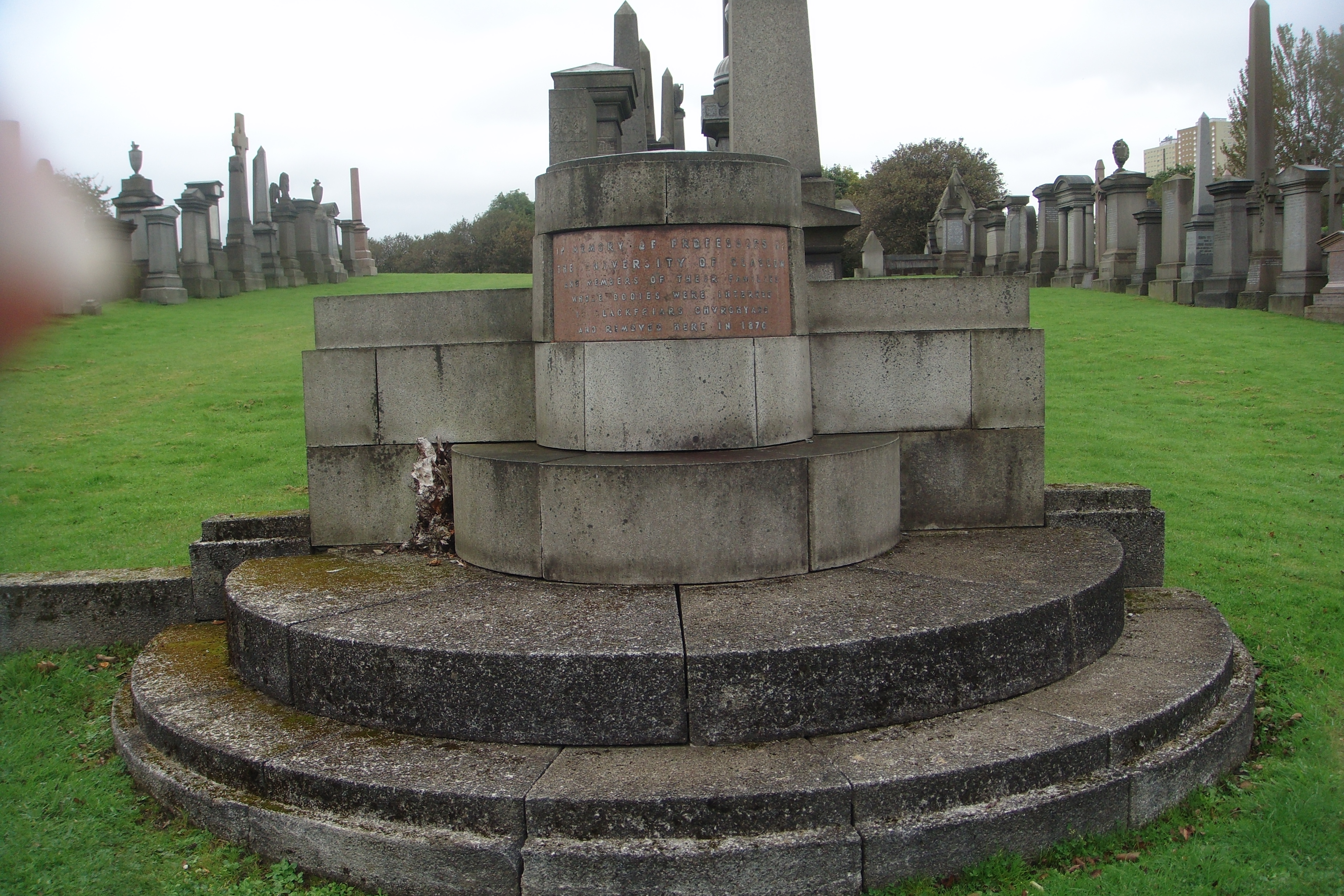 This photo was taken by me on 19th Sep 2011 in Glasgow Necropolis. It is of the Professor's monument set up over the remains of Glasgow University professors removed from Blackfriars Church from 1870 onwards.